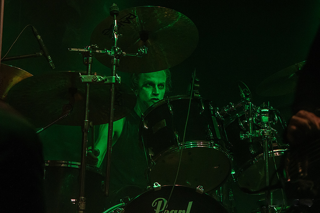 God Seed - 7.12.2012 - Music Hall, Geiselwind